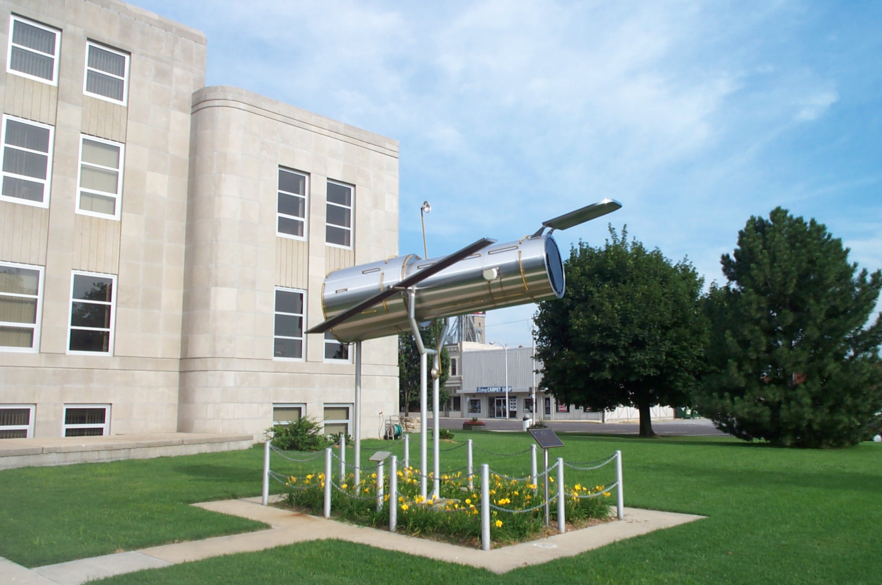 Replica of the Hubble Space Telescope located at the county courthouse in Marshfield, Missouri. A plaque nearby says it was erected June 12, 1999.